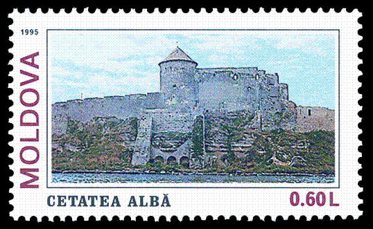 Stamp of Moldova